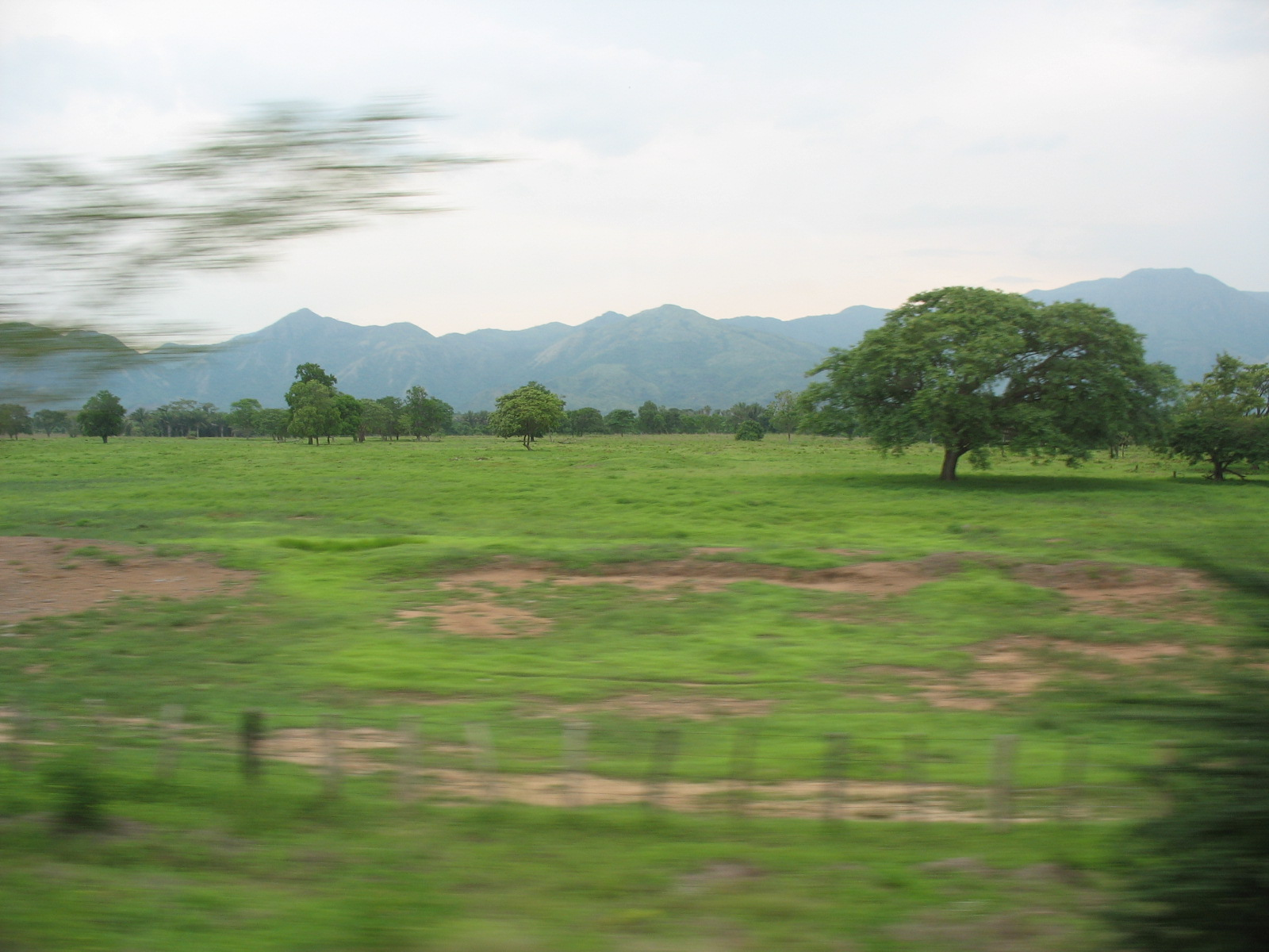 Cesar ranges, Sierra Nevada de Santa Marta.